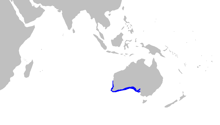 Distribution map for Sutorectus tentaculatus